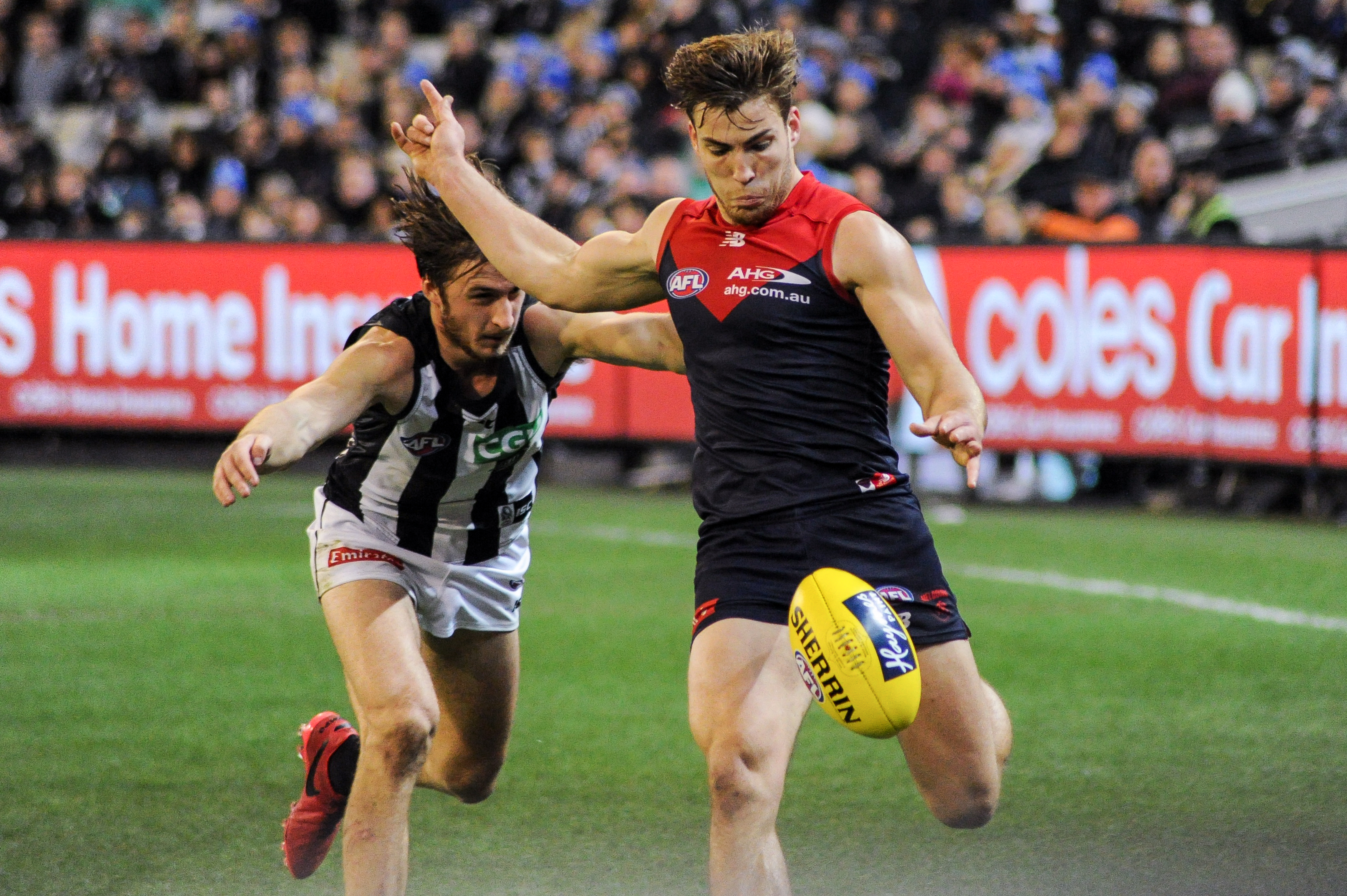 Jack Viney kicking away from Tom Phillips during the AFL round twelve match between Melbourne and Collingwood on 12 June 2017 at the Melbourne Cricket Ground in Melbourne, Victoria.